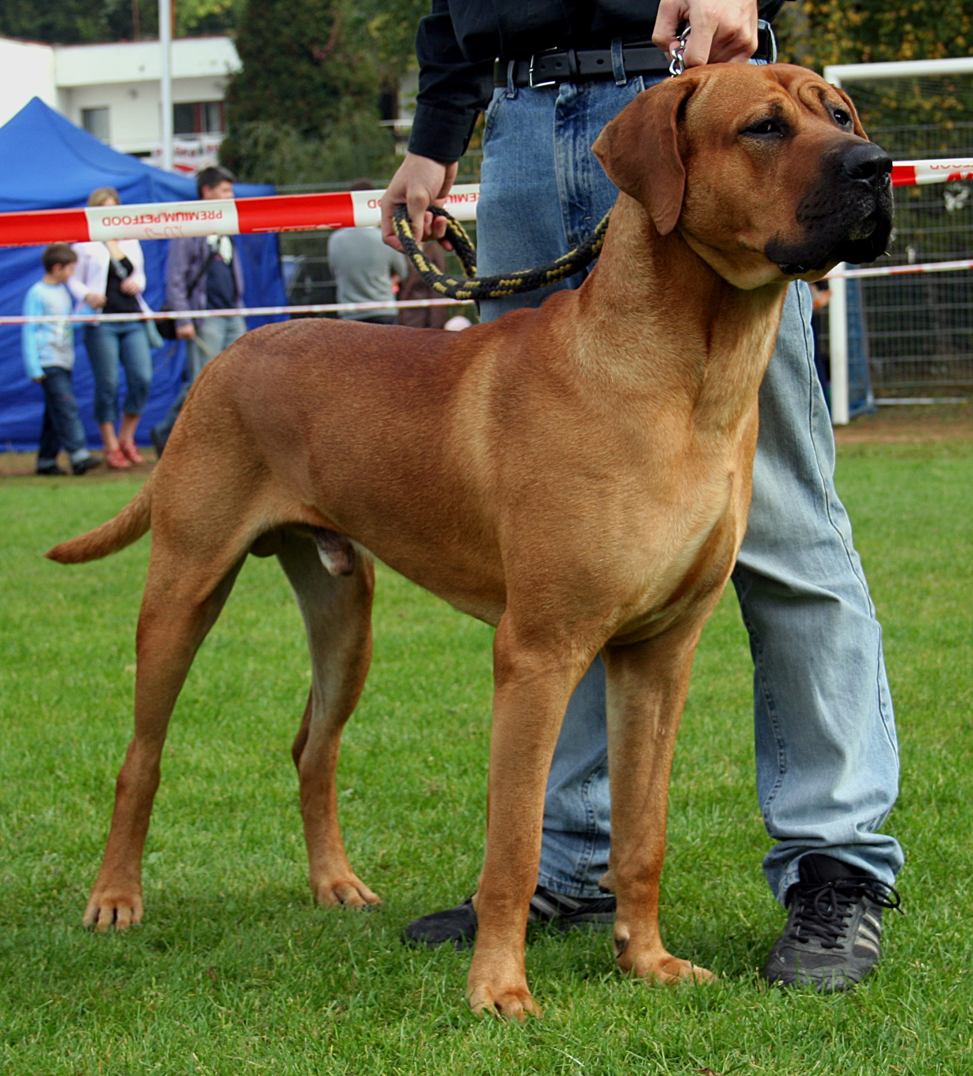 Tosa during Dogs Show in Rybnik.